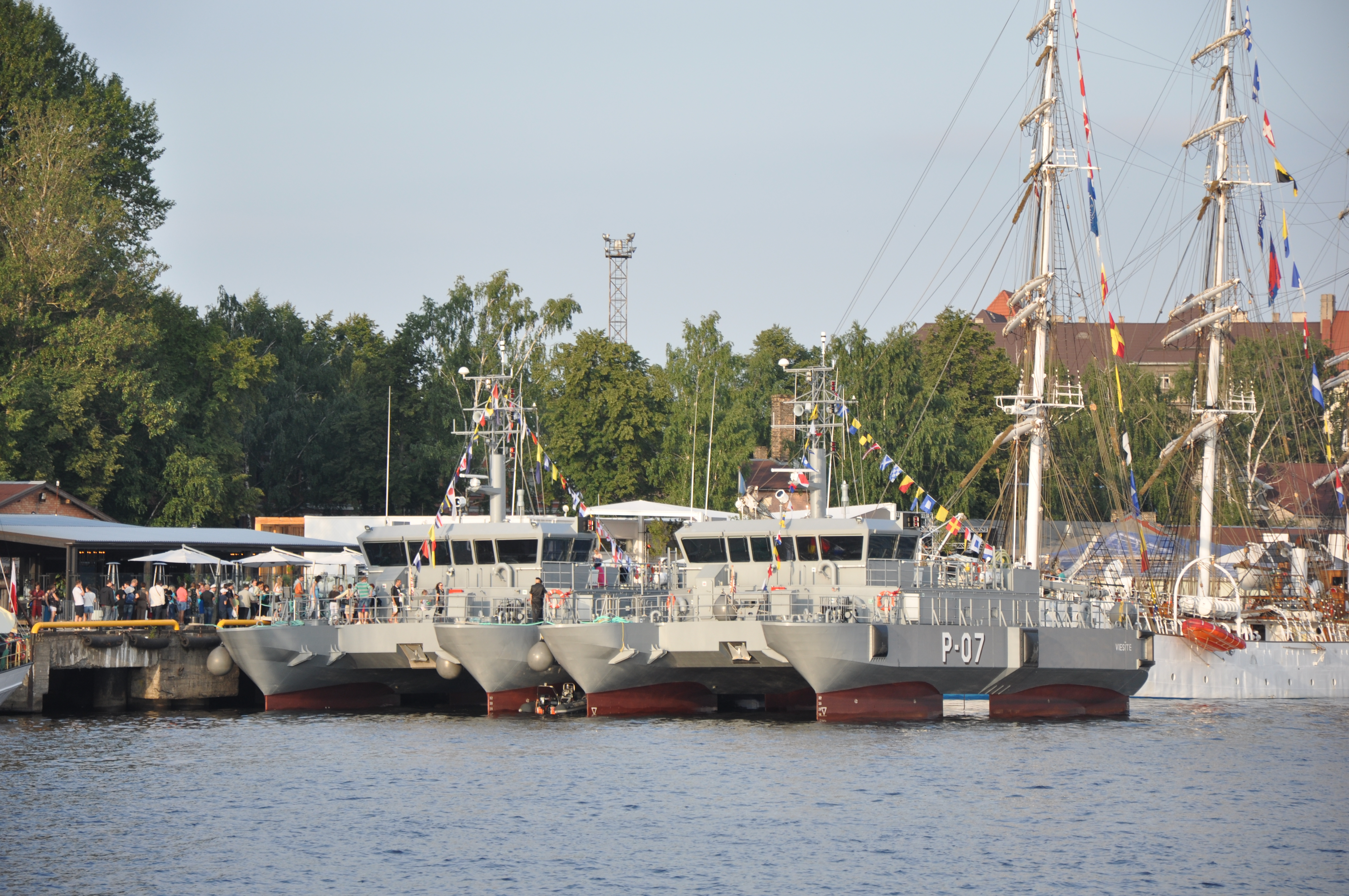 The Tall Ships Races 2013; Rīga, Latvia